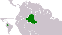 A map of Palombia